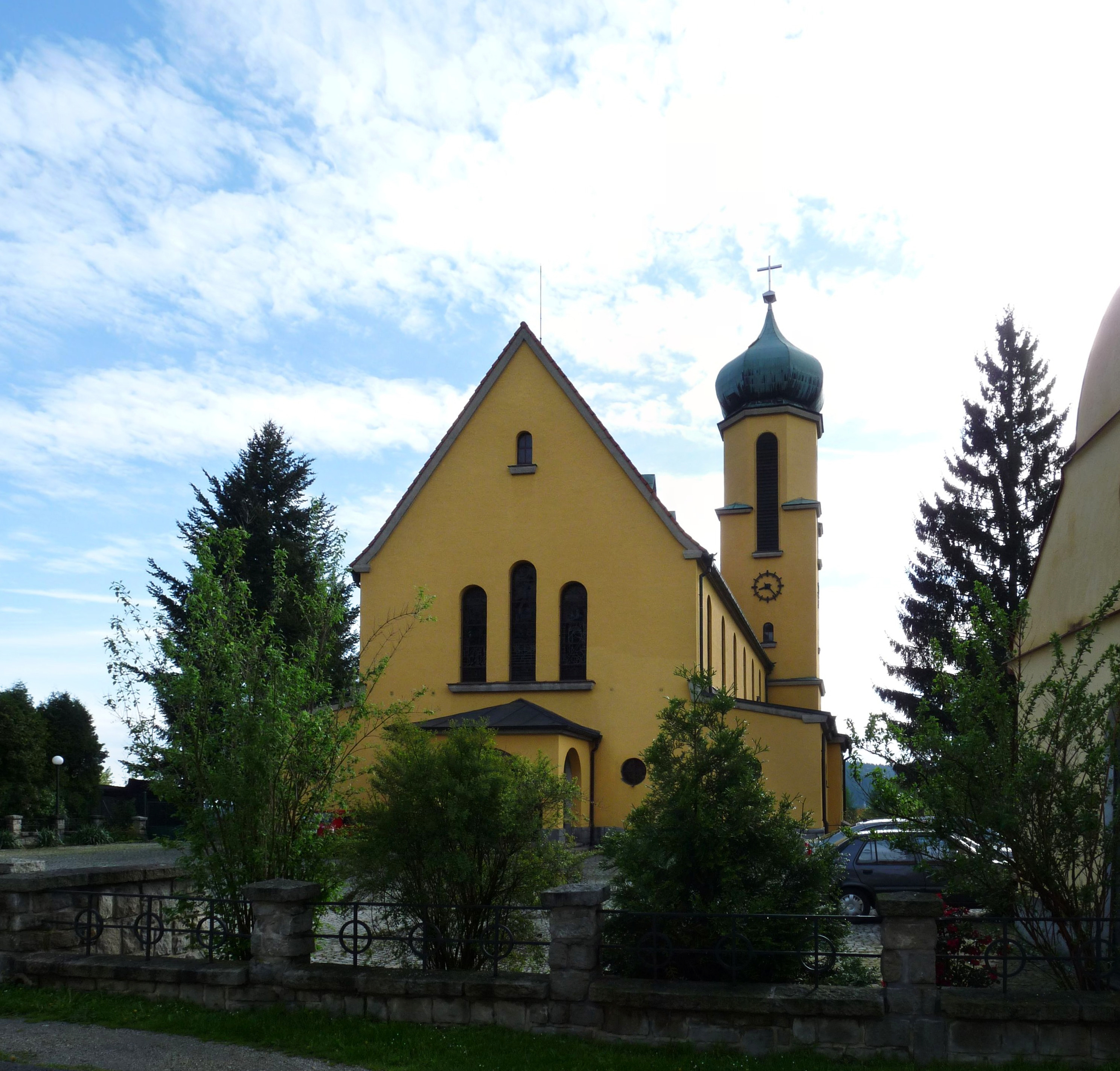 Church of Saint John of Nepomuk in Větřní, Český Krumlov District, South Bohemian Region, Czech Republic.